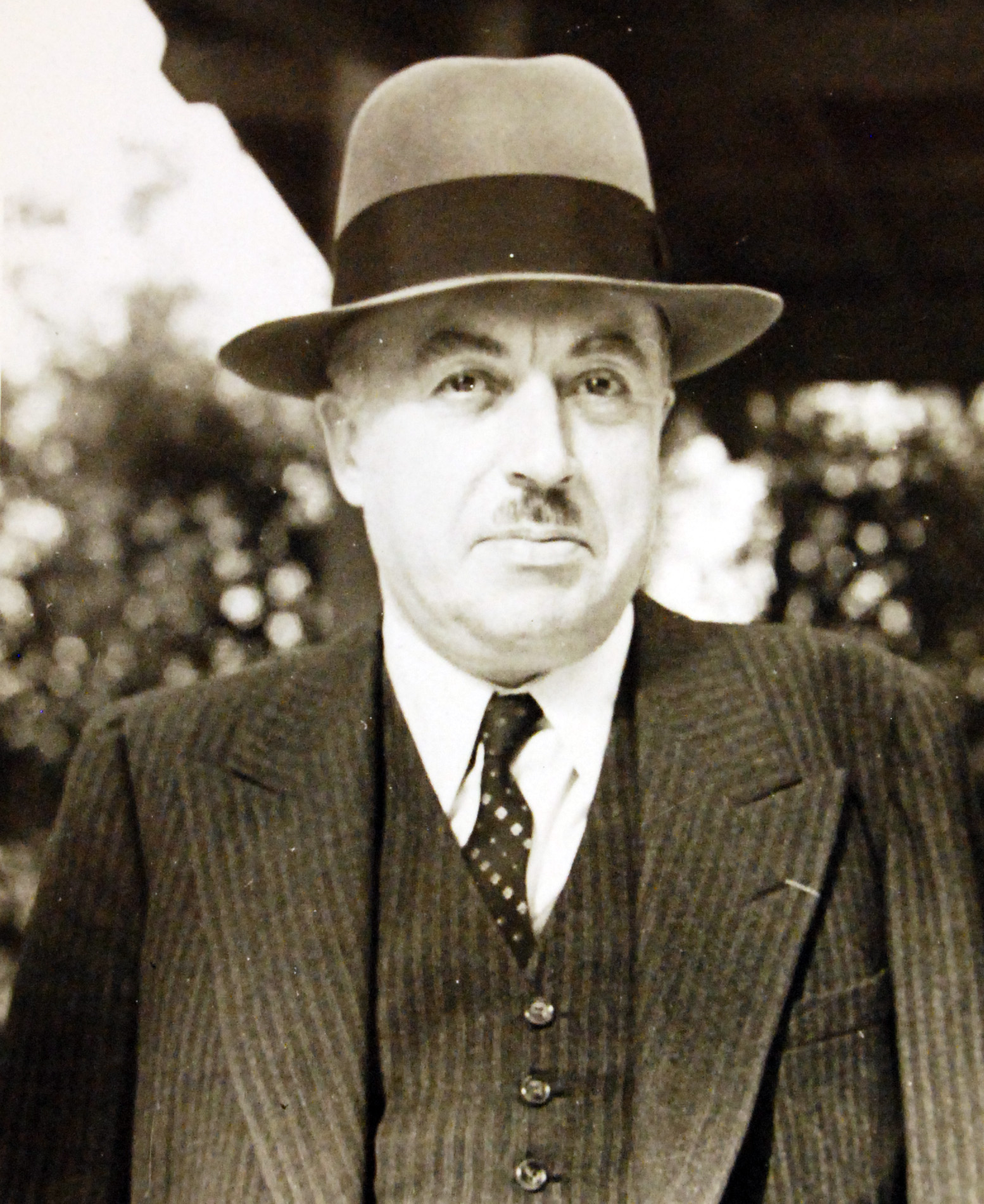 Lot 11611-2: Liberation of France, World War II. Member of the French Committee of National Liberation. Shown: Commissioner of Social Affairs, Adrien Tixier, possibly November 1944. Office of War Information Photograph. (2016/02/25)